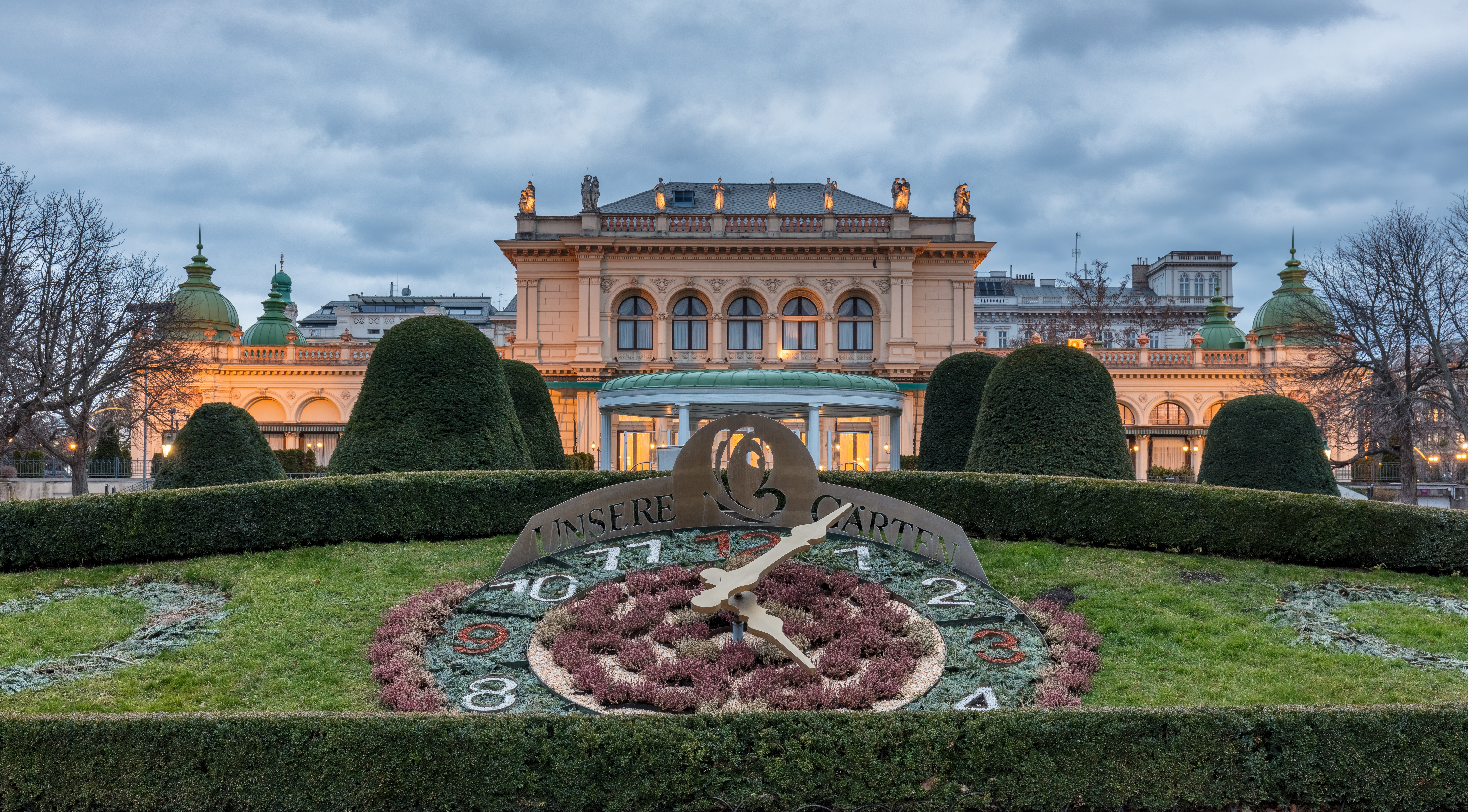 Flower clock, Stadtpark, Vienna, Austria